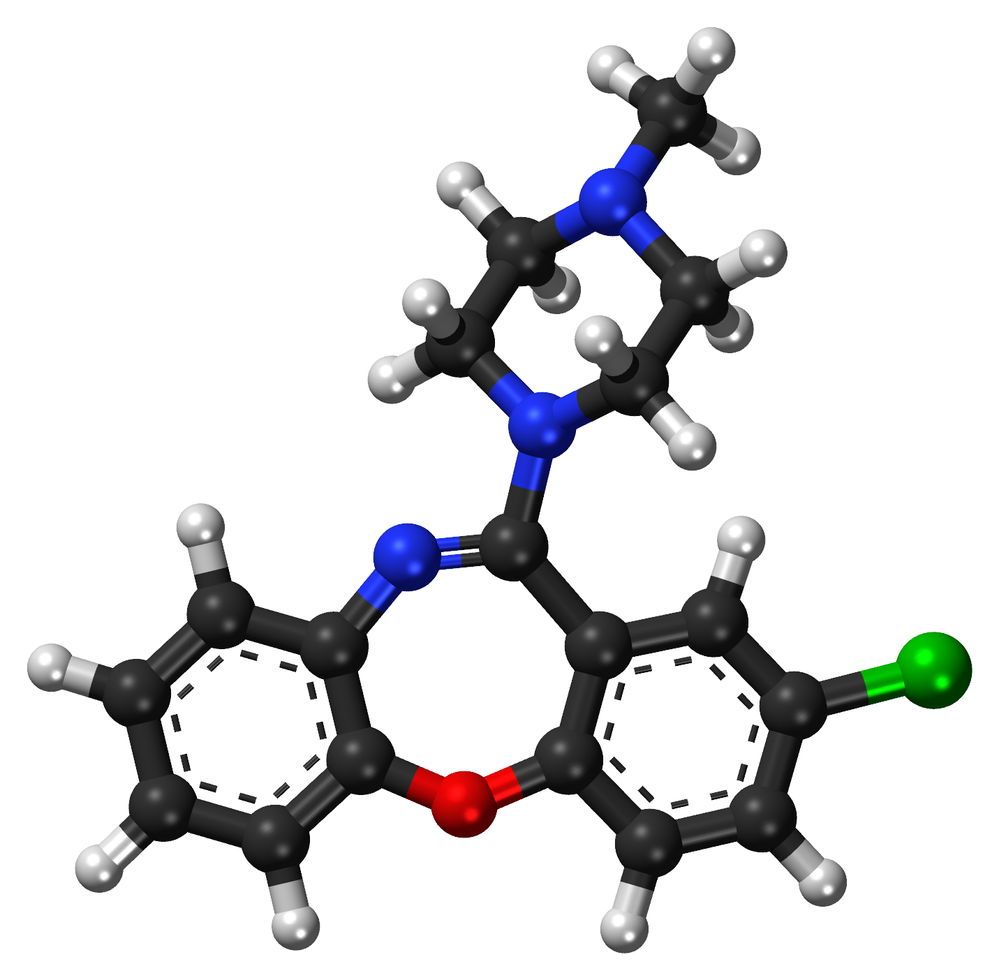 Ball-and-stick model of loxapine—a typical antipsychotic used to treat schizophrenia and agitation in schizophrenic or bipolar patients. Created using Accelrys DS Visualizer 4.1 and Adobe Photoshop CC 2015. Colors used: Carbon, C: dark grey Hydrogen, H: light grey Nitrogen, N: blue Oxygen, O: red Chlorine, Cl: green This chemical image was created with Discovery Studio Visualizer.